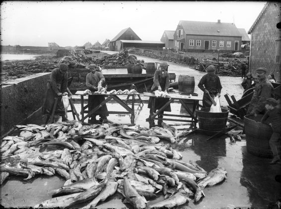 1915, fiskverkamenn í aðgerð á Duusplani í Keflavík , hausun, flatning og vöskun. Ljósmyndari / Photographer: Magnús Ólafsson Format: Glerplata / Glass negatives, 12 x 16 cm. Höfundarréttur / Rights Info: Enginn þekktur höfundarréttur / No known restrictions on publication. Geymsla / Repository: Ljósmyndasafn Reykjavíkur / Reykjavík Museum of Photography, Tryggvagata 15, 6. Hæð / 6th floor Númer myndar / Call Number: MAÓ 1750 Myndavefur Ljósmyndasafnsins / Reykjavík Museum of Photography´s photoweb: ljosmyndasafn.reykjavik.is/fotoweb/Grid.fwx